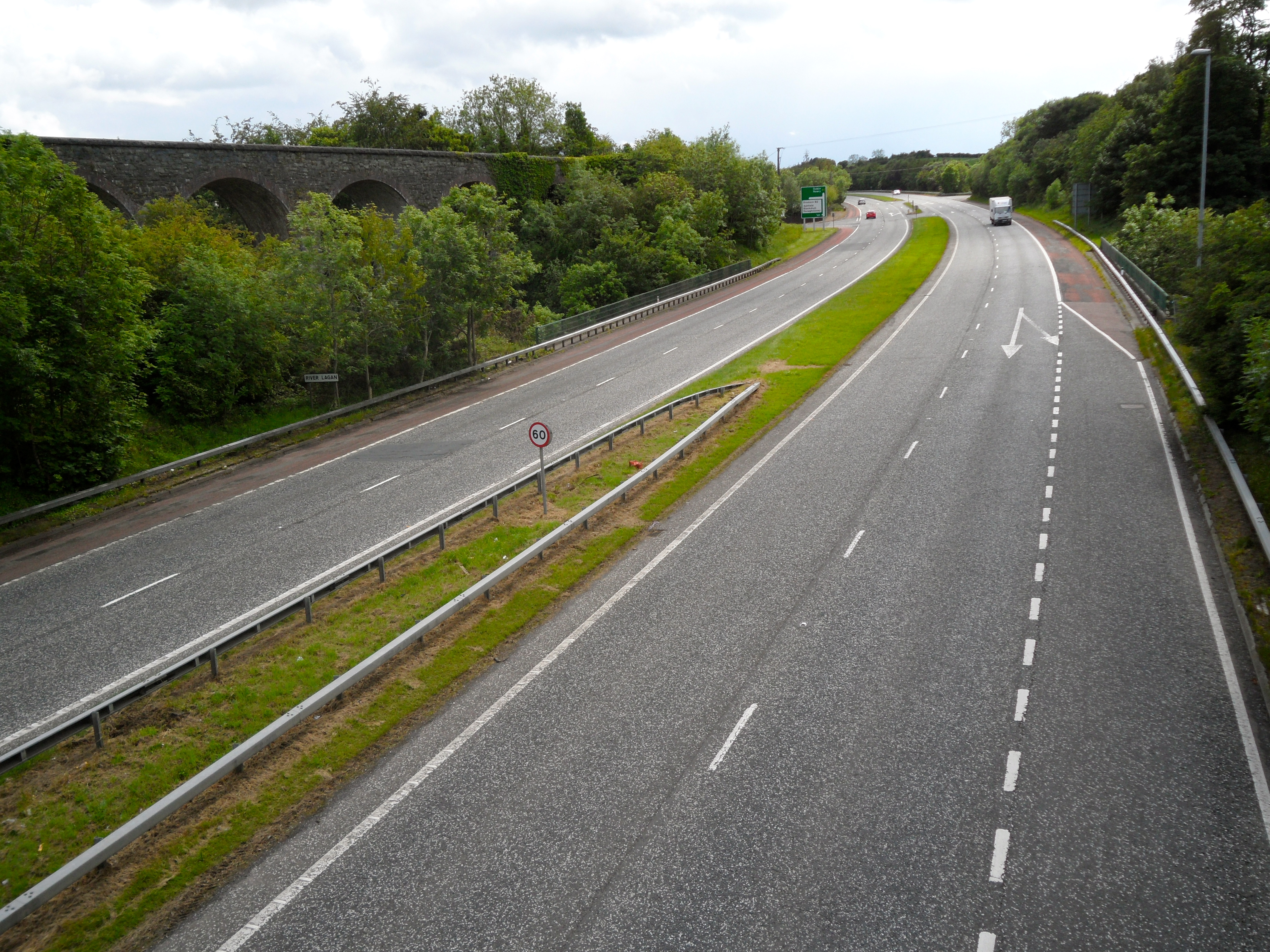 South view over A1 Dromore Bypass, County Down from the Lurgan Road bridge. Road opened 1972, disused railway viaduct to left, bridge over River Lagan in centre.